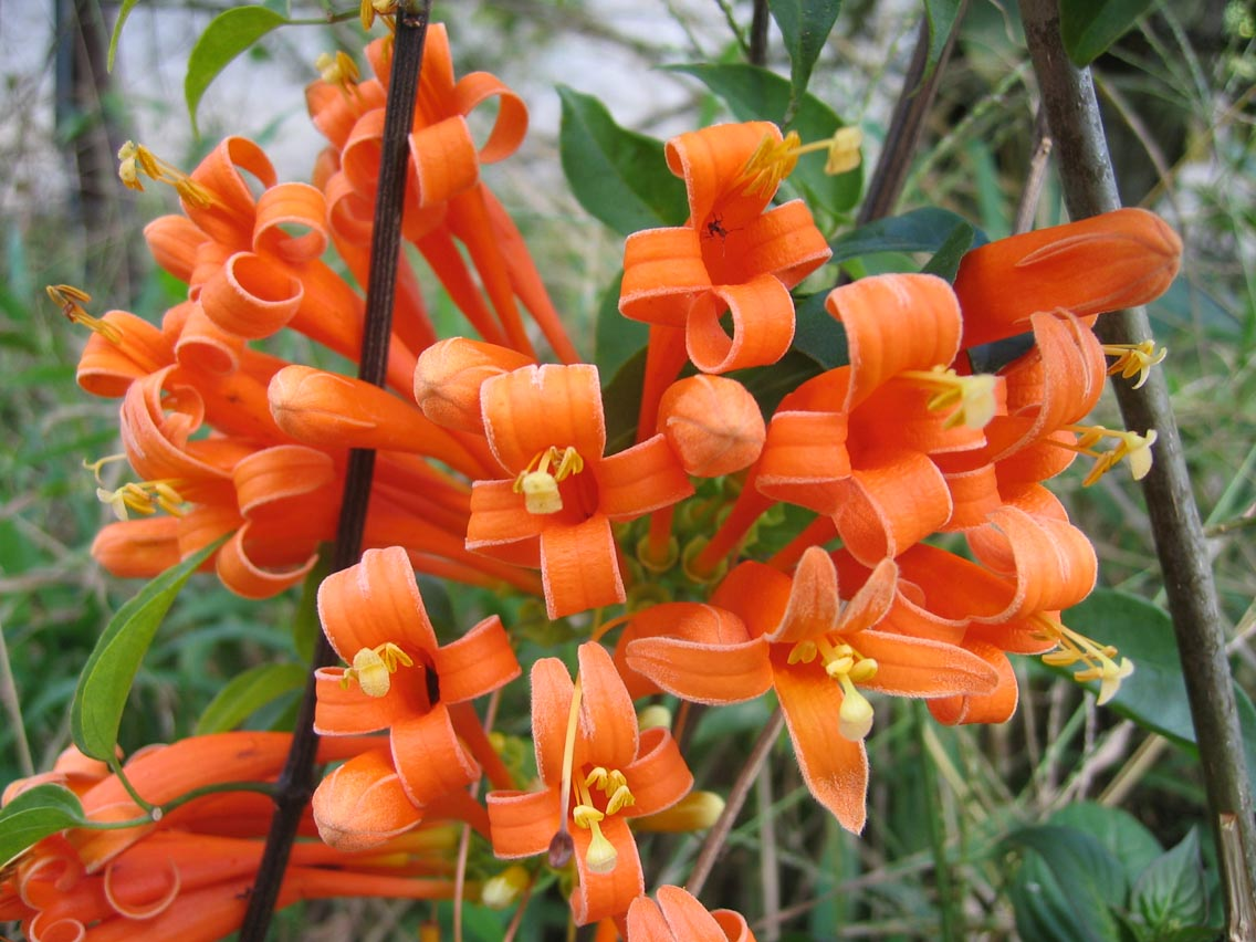 Pyrostegia venusta. Near Orosí, Costa Rica. The name I gave this image is based on the fact that I saw a colorado beetle on it. See Image:DirkvdM_coloradobeetle.jpgOriginal filename: 040217_7145.jpg